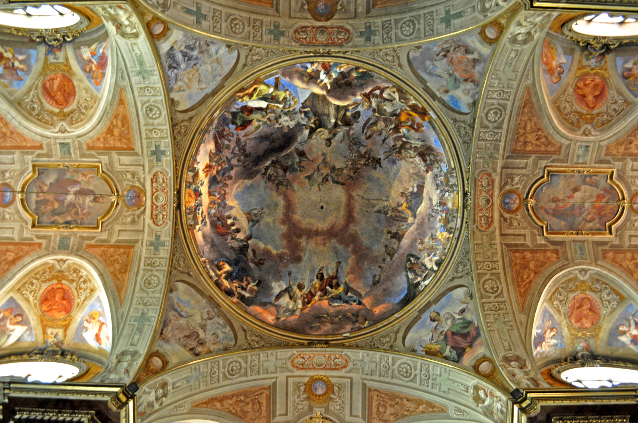 Detail from the ceiling of the Cattedrale di San Donato (1743-1757) in Mondovì Piazza